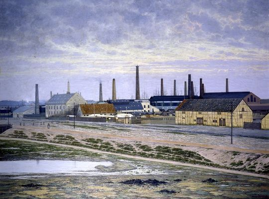 A painting showing Kalvebod Beach and Vester Gasværk in Copenhagen, Denmark